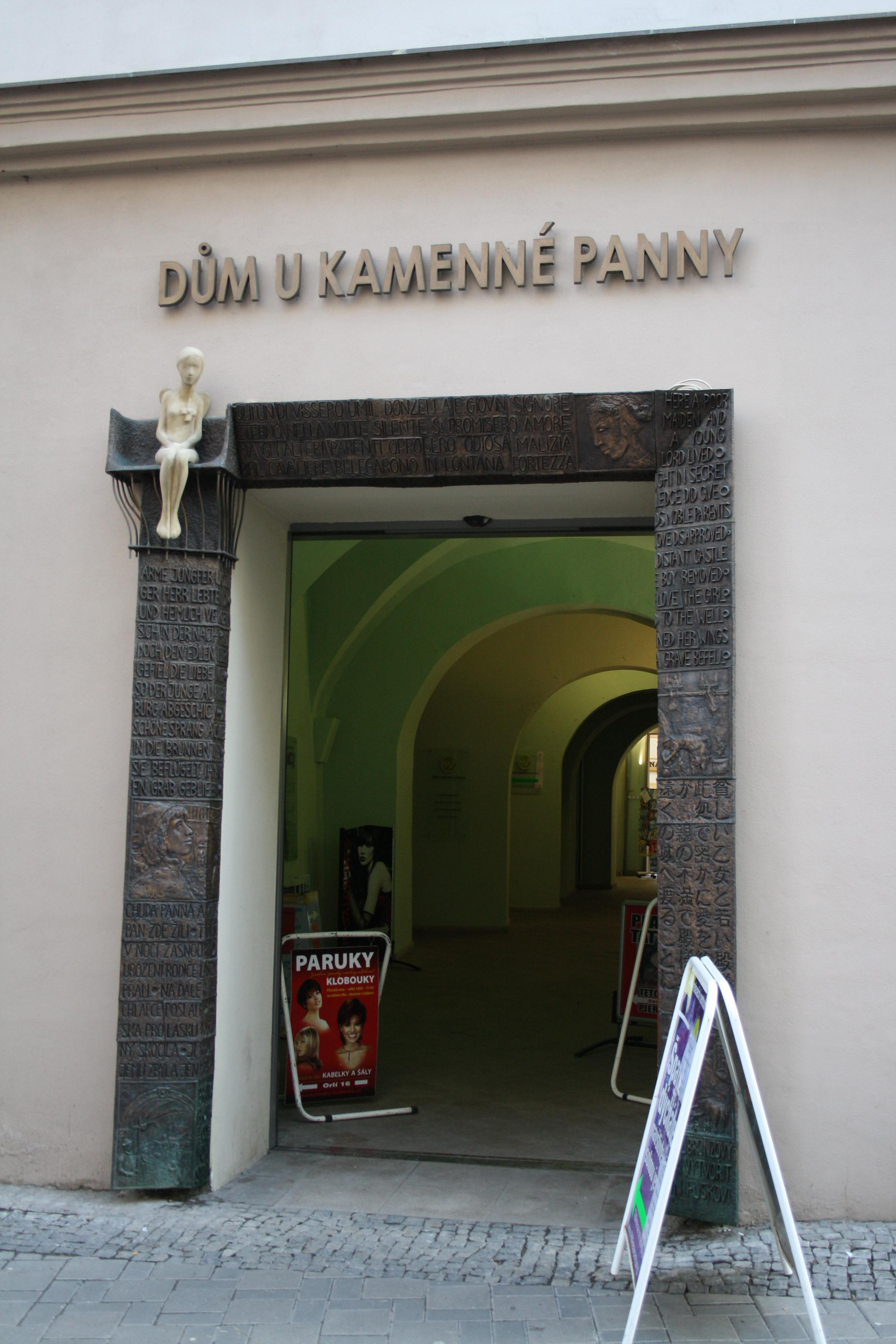 Metzger's house in Orlí street in Brno-Center.